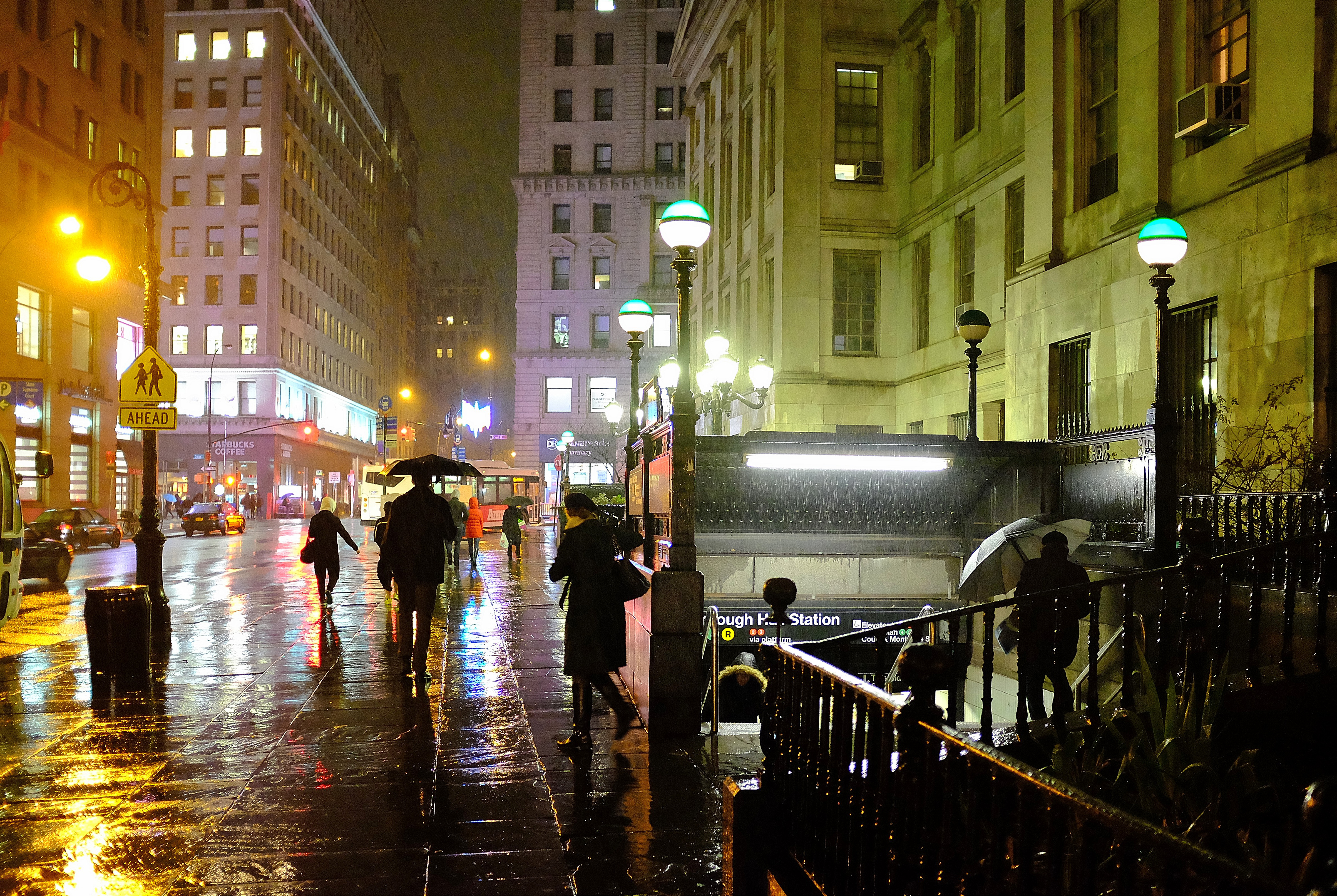 January 3, 2015 Brooklyn, NY